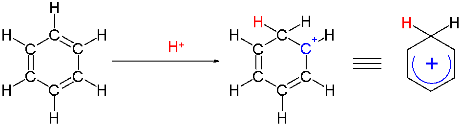 Arenium Ion